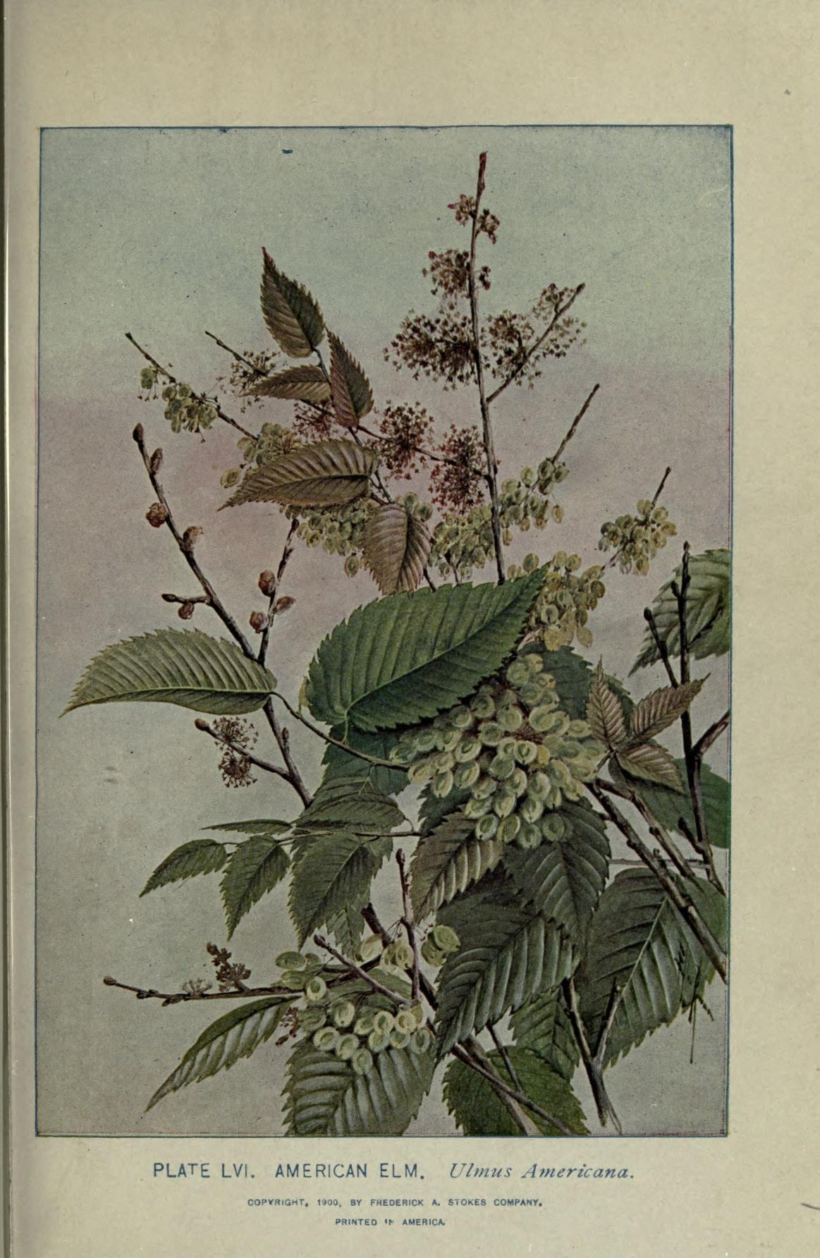 PLATE LVI. AMERICAN ELM. Ulmus Americana. COPYRIGHT, 1900, BV FKEOERICK A. STOKES COMPANY. PRINTED .* AMERICA